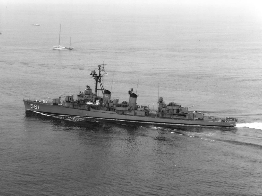 The U.S. Navy destroyer USS Prichett (DD-561) underway off the coast of San Diego, California (USA), in June 1969. Note the sailboat, channel buoy and powerboat in the left distance.